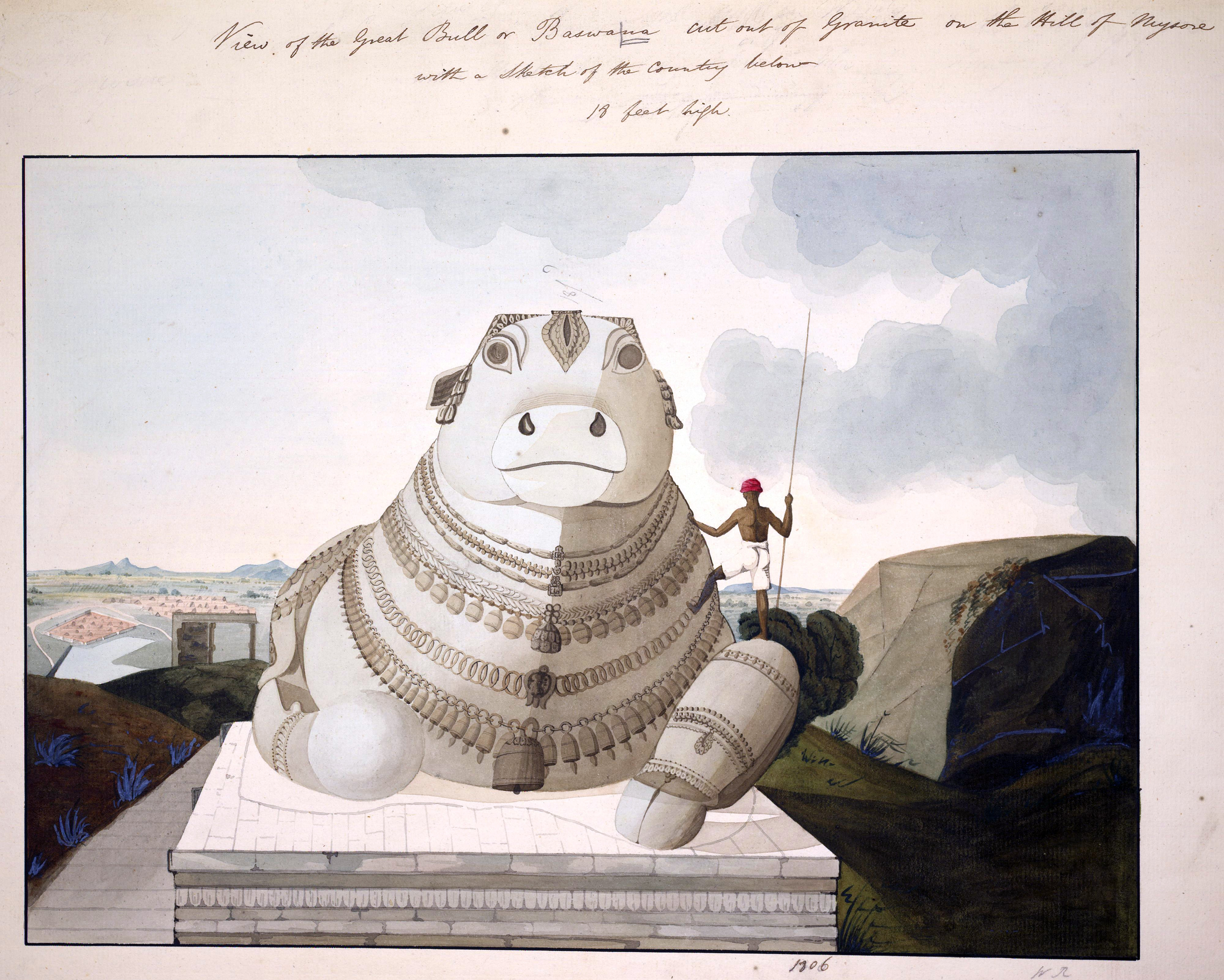 Statue of the sacred Nandi Bull carved out of a single granite boulder on the road to Chamundi Hill overlooking the town of Mysore.